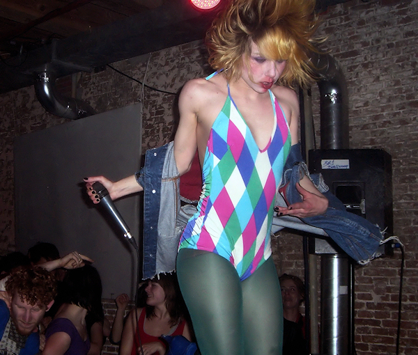 Caroline Martial performing with Kap Bambino at the 2008 Les Petites Différences Marginales festival in Rotterdam.